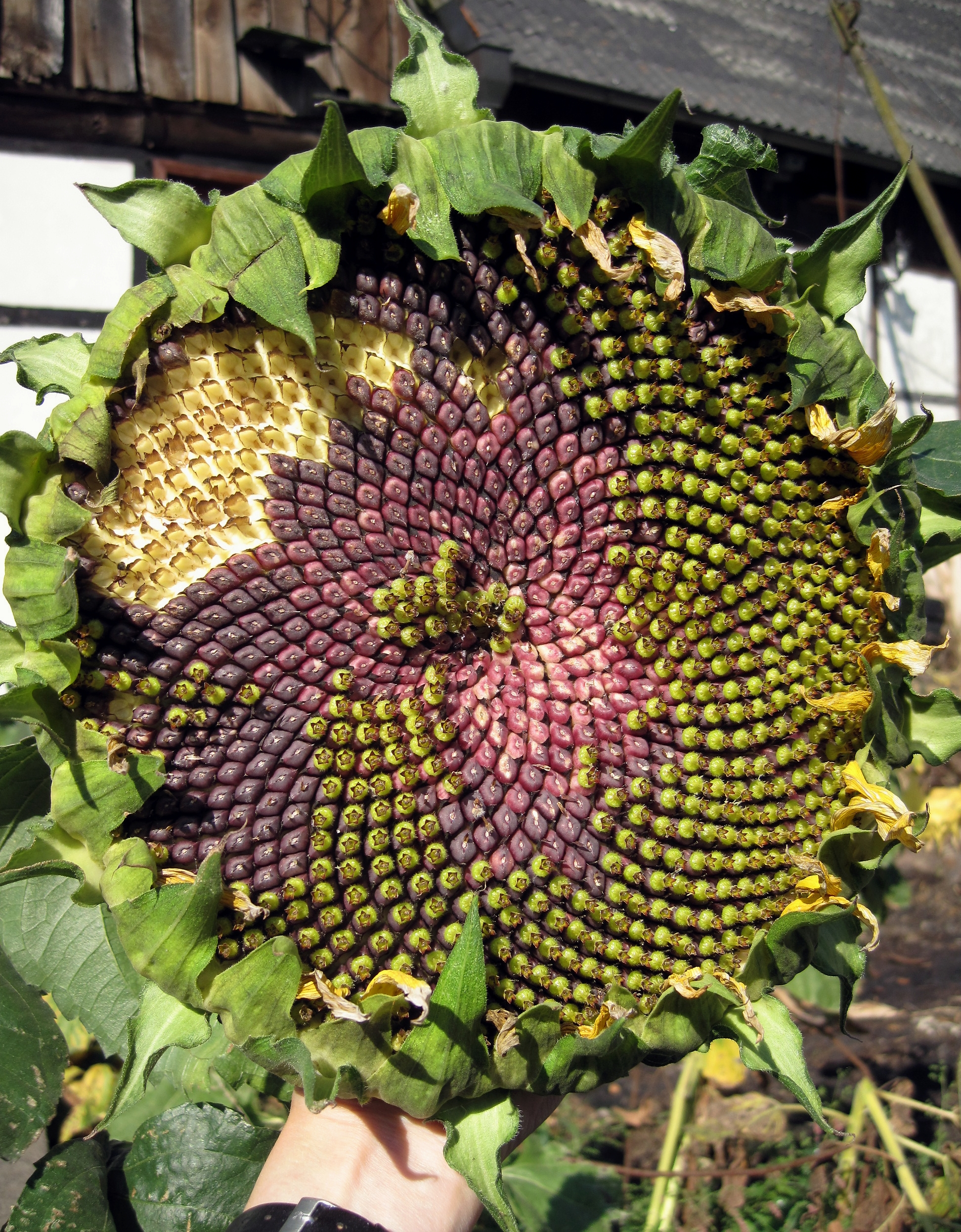 Inflorescence (plate-shaped basket) of a sunflower (Helianthus annuus) in Balve-Eisborn, NRW, Germany.